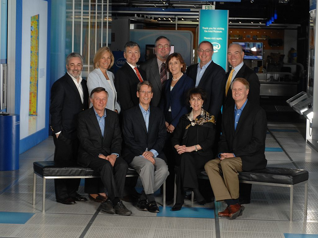 With the exception of Jane Shaw, center, who retired from Intel's board of directors in 2012, these are the people who are choosing the next Intel CEO. Front row (left to right): James Plummer, John M. Fluke Professor of Electrical Engineering and Frederick E. Terman Dean of the School of Engineering at Stanford University. On the board since 2009. Frank Yeary, principal of private investment and advisory firm Darwin Capital Advisors. On the board since 2009. Ambassador Charlene Barshefsky, senior international partner at law firm Wilmer Cutler Pickering Hale and Dorr. On the board since 2004. John Donahoe, president and CEO of eBay. On the board since 2009. Back row (left to right): David Yoffie, Max and Doris Starr professor of International Business Administration at Harvard Business School. On the board since 1989. Susan Decker, principal of consulting and advisory firm Deck3 Ventures. On the board since 2006. Reed Hundt, CEO of the non-profit Coalition for Green Capital and the principal of strategic advice firm REH Advisors. On the board since 2001. Andy Bryant, board chairman and a member since 2011. Jane Shaw, former board chair (2009-2012). She joined the board in 1993 and retired in 2012. Paul Otellini, president and CEO of Intel. On the board since 2002. He has announced that he will retire in May 2013. David Pottruck, chairman and CEO of private equity firm Red Eagle Ventures. On the board since 2009.